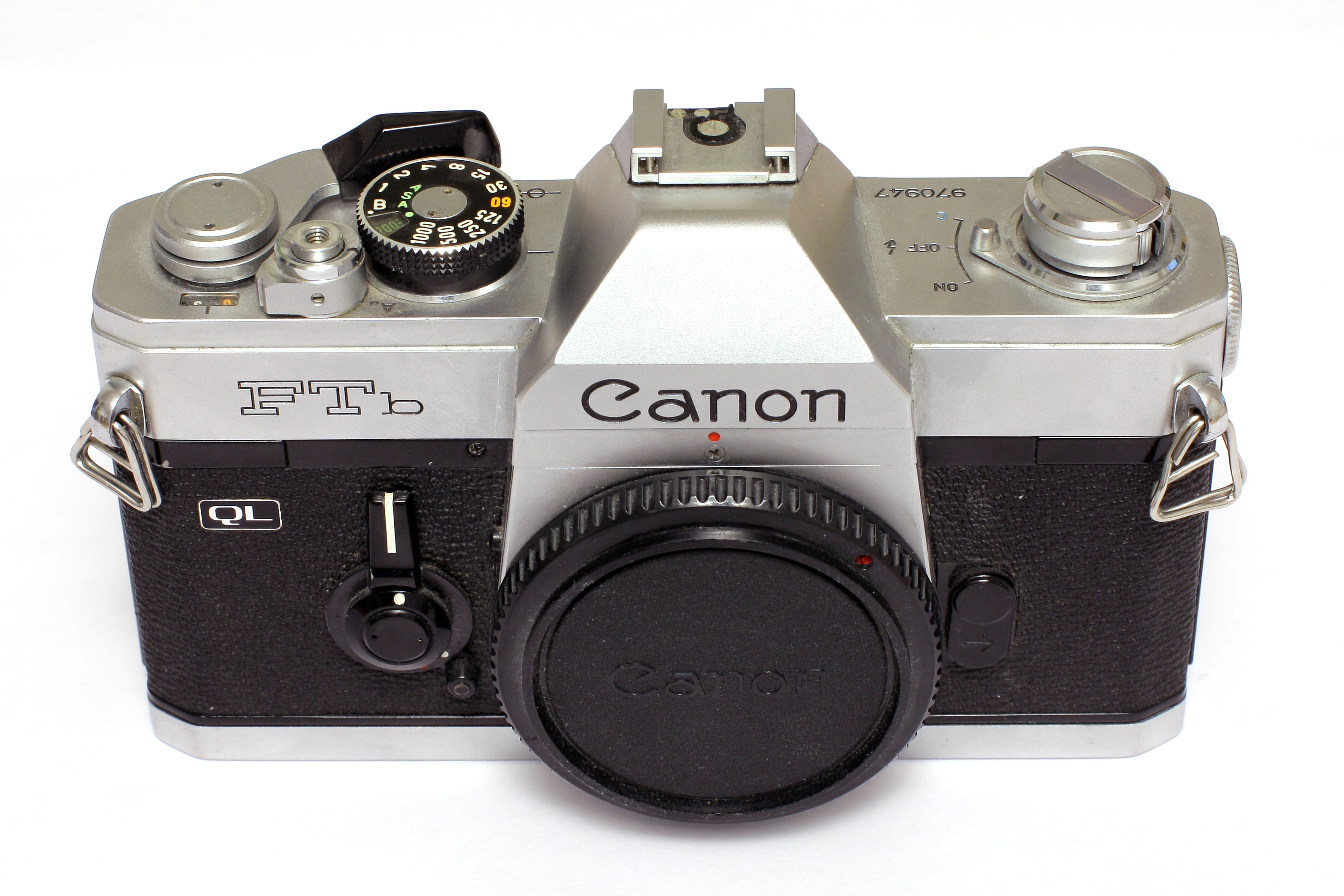 Body of the Canon FTb Ql camera.